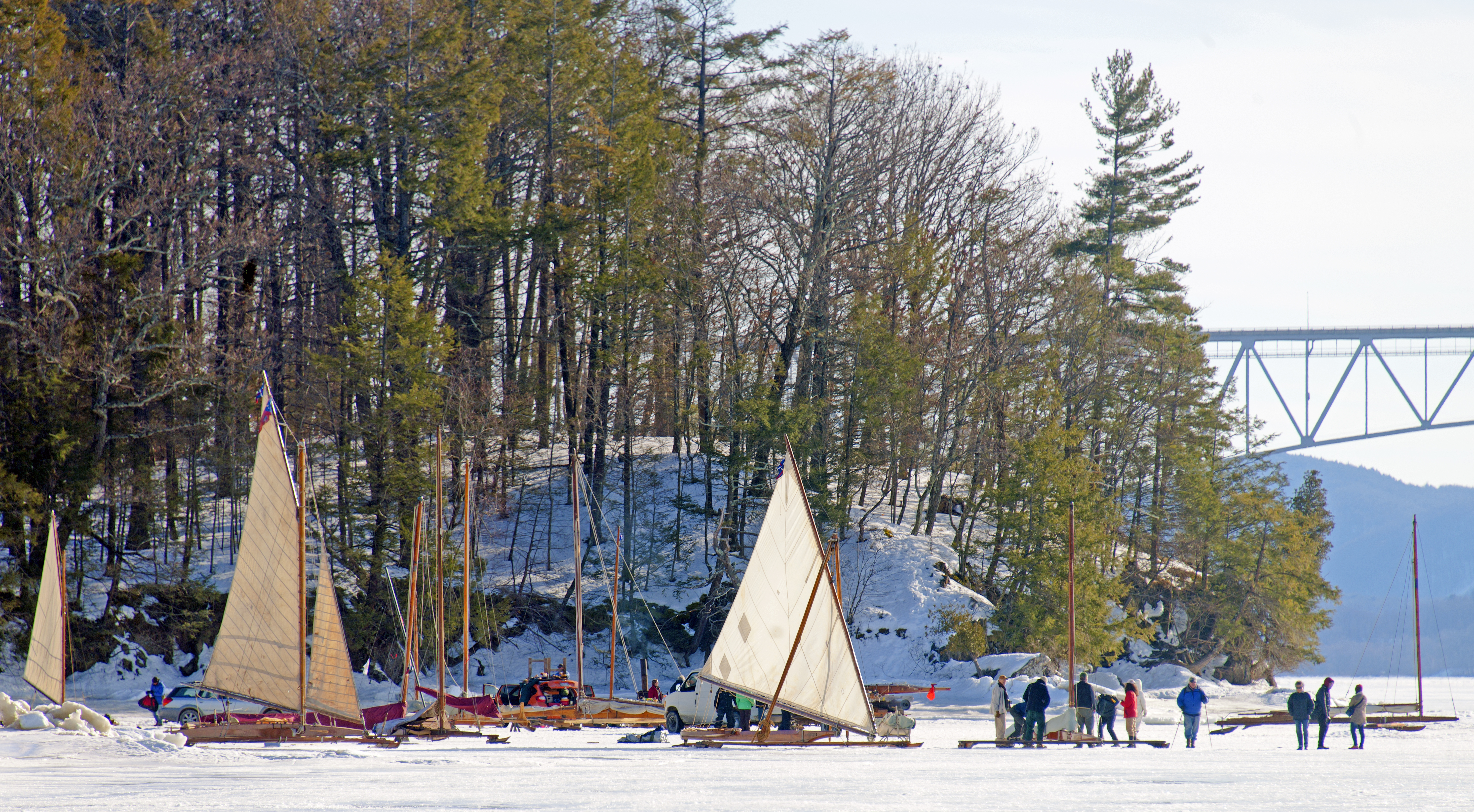 Ice yachters on the Hudson River near Barrytown, NY, USA